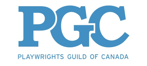 Official logo for Playwrights Guild of Canada